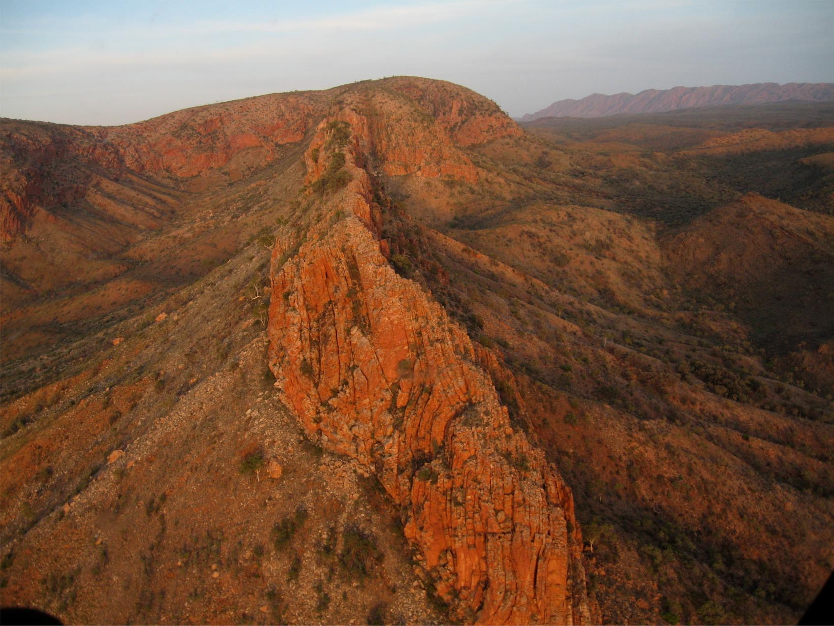 West MacDonnell Ranges, Alice Springs.